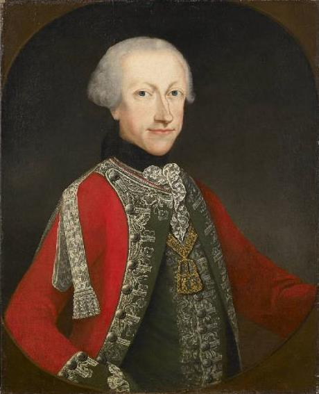 Portrait of Victor Amadeus III of Sardinia (1726-1796)